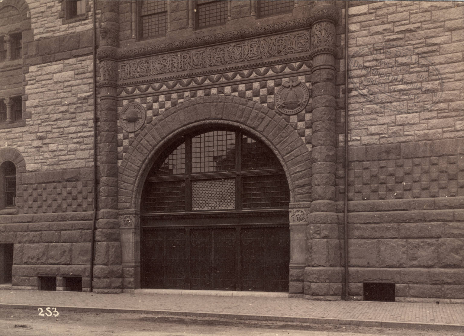 Collection: A. D. White Architectural Photographs, Cornell University Library Accession Number: 15/5/3090.00233, Title: Detail, First Spiritual Temple, Boston, Notes:Also known as Exeter Street Theatre, Waterstone's bookstore, *Architect: Henry Hobson Richardson (American, 1838-1886). Photograph date: ca. 1885-ca. 1895, Building Date: 1884-1885. Location: North and Central America: United States; Massachusetts, Boston, corner of 181 Newbury and 26 Exeter Street. Materials: albumen print, Image: 5 3/4 x 8 in.; 14.605 x 20.32 cm, Style: Romanesque Revival, Provenance: Transfer from the College of Architecture, Art and Planning, Persistent URL